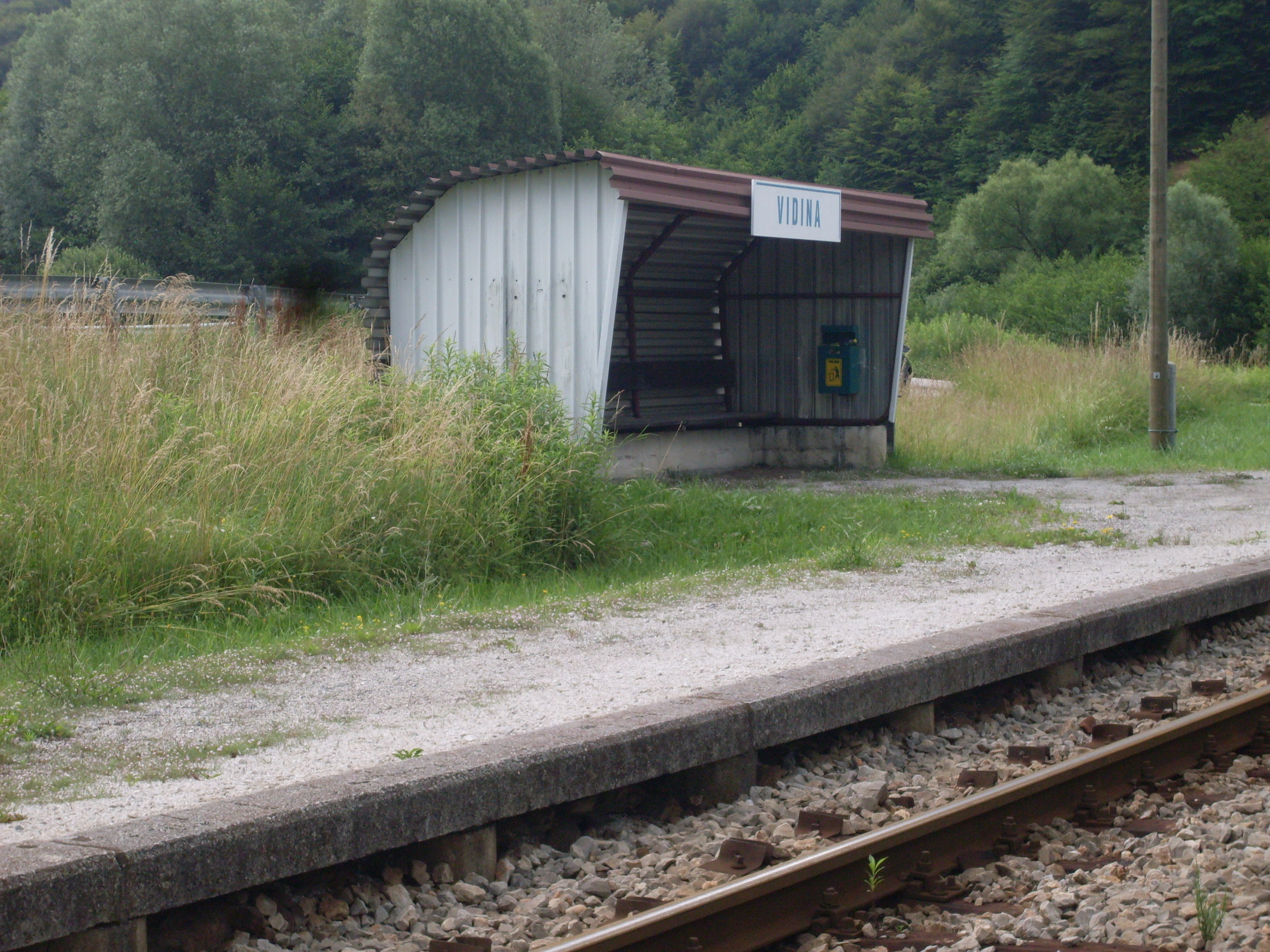 Rail halt Vidina, actually located in Dobovec pri Rogatcu.